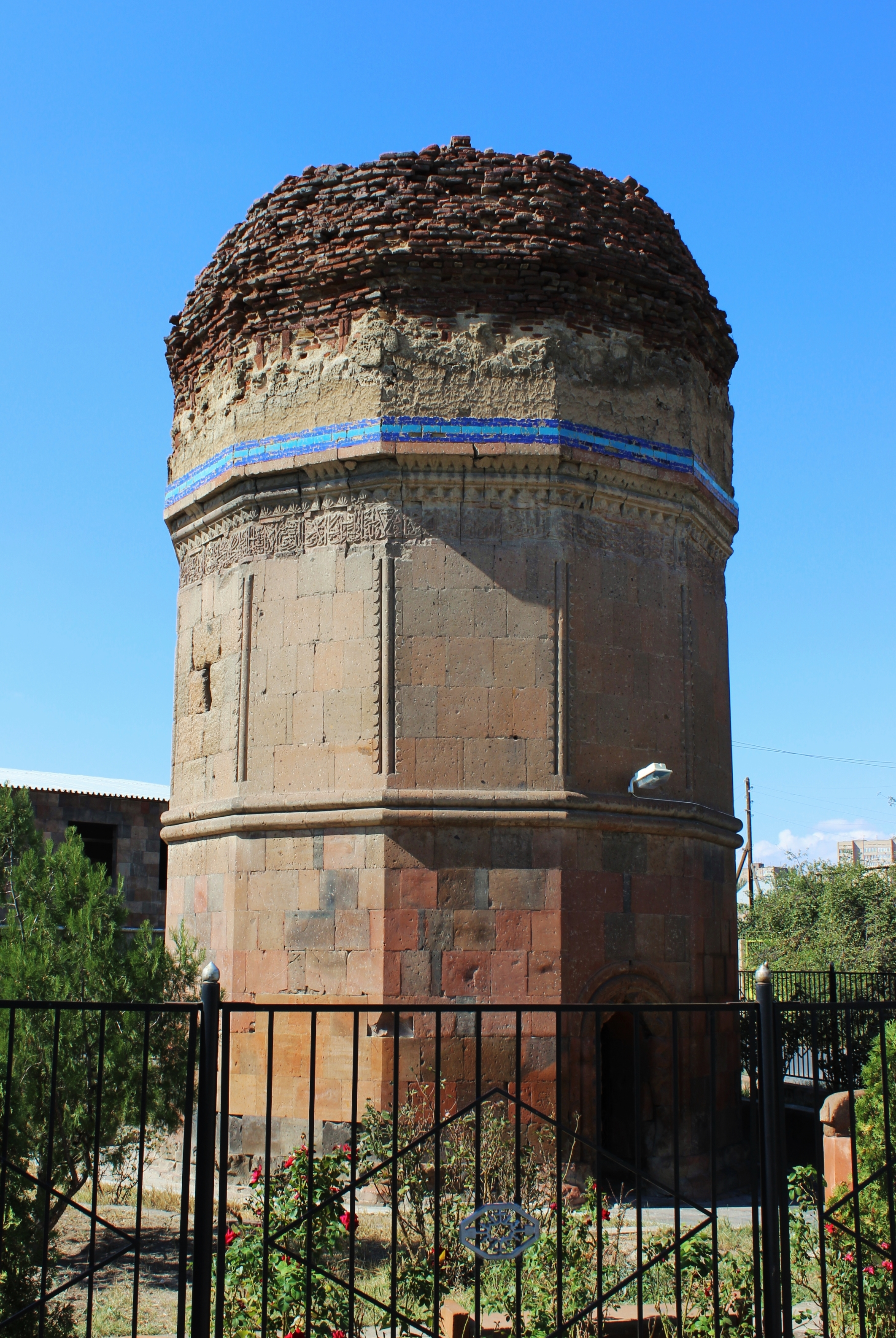 Southeast view of the Mausoleum of Turkmen Emirs or Argavand Funerary Tower, a Qara Qoyunlu mausoleum built in 1413 to commemorate Emir Pir-Hussein. Argavand, Ararat Province, near Yerevan, Armenia.